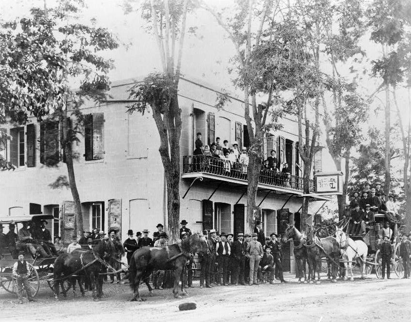 Exterior of the Mitchler Hotel (now known as Murphys Hotel), Murphys, California, USA.